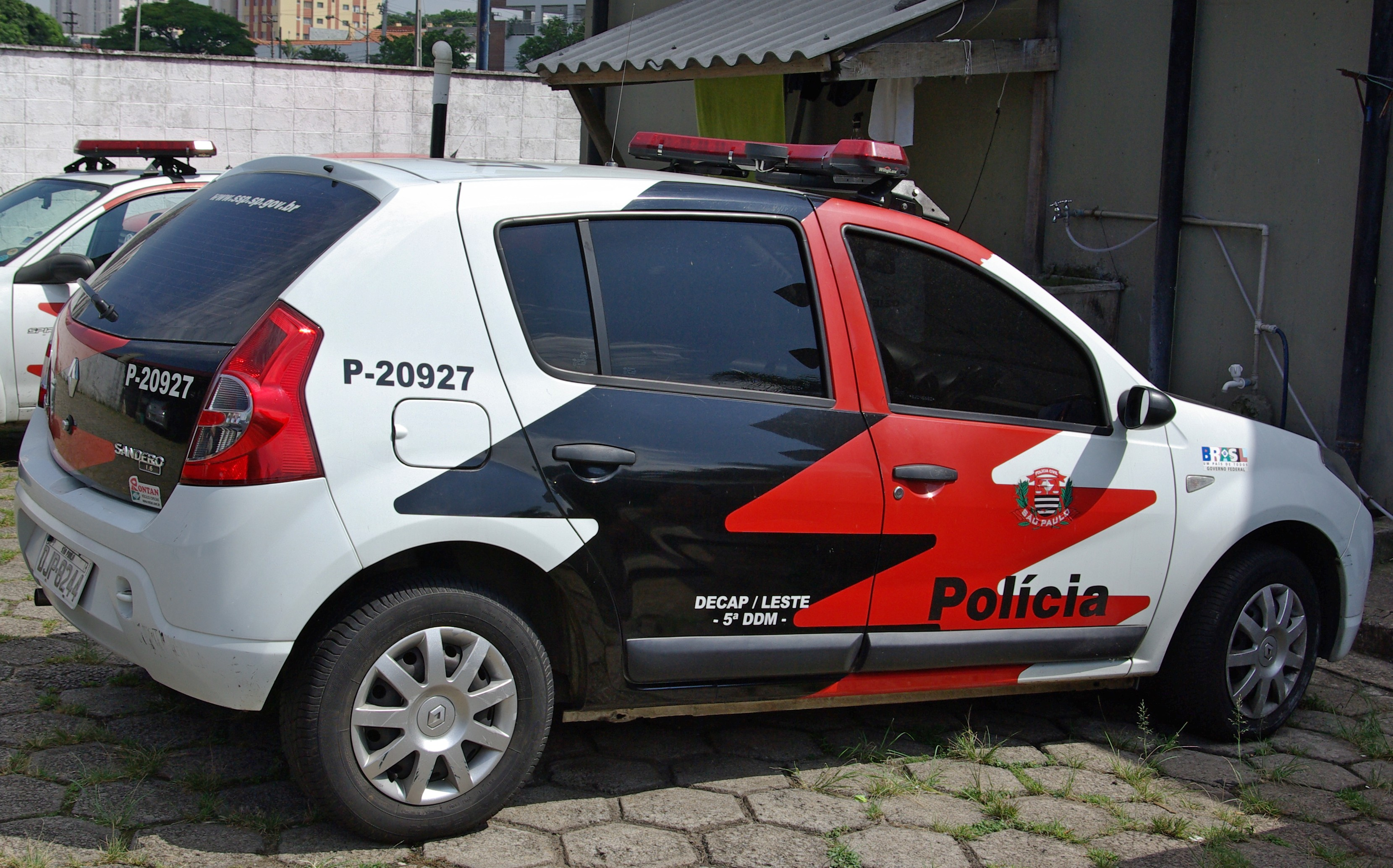 Sao Paulo police car